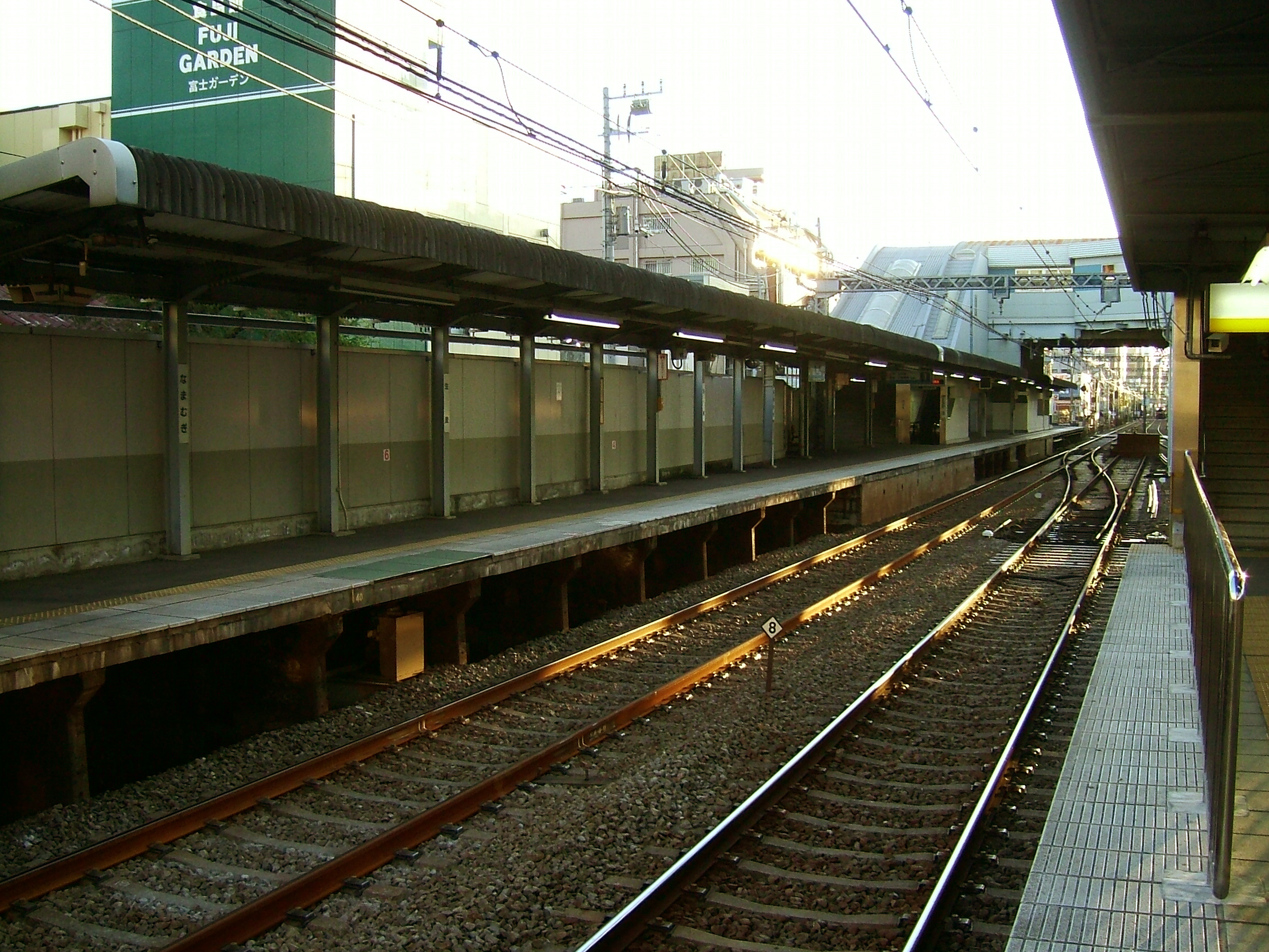 Namamugi Station no.1 platform (Keihin Electric Express Railway Main Line)